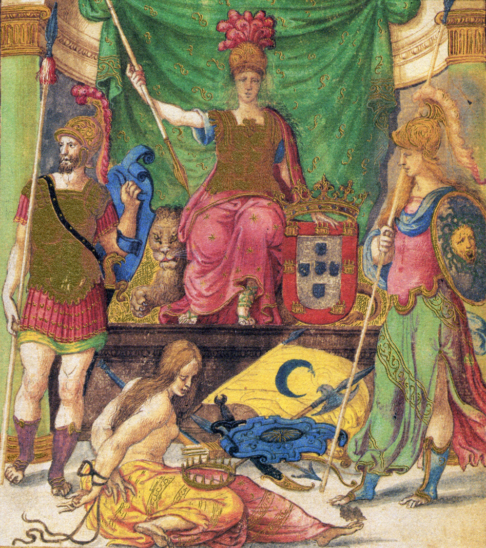 Frontispiece of Sucesso do Segundo Cerco de Diu" ("The Success of the Second Siege of Diu"), 1574, by Jerónimo Côrte-Real.